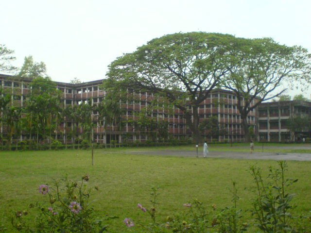 This is the main building of the Shahidullah Hall, University of Dhaka. Historically this building has great importance. It is containing the architectural view of the early 20th century. It was established in 1921.Then it was named “ Dacca Hall”. In 1939 the name had been changed to Shahidullah Hall. It is one of the oldest hall of the University of Dhaka. Together with Jagannath Hall and Salimullah Hall, it was also established in 1921 with the birth of Dhaka University. This building is red in colour and also very eye-catching. It is square in shape and there is a beautiful garden in the middle of the square. The main building has 90 rooms and can accommodate about 200 students. Now Shahidullah Hall has another two extension building. But the main building is the most attractive.